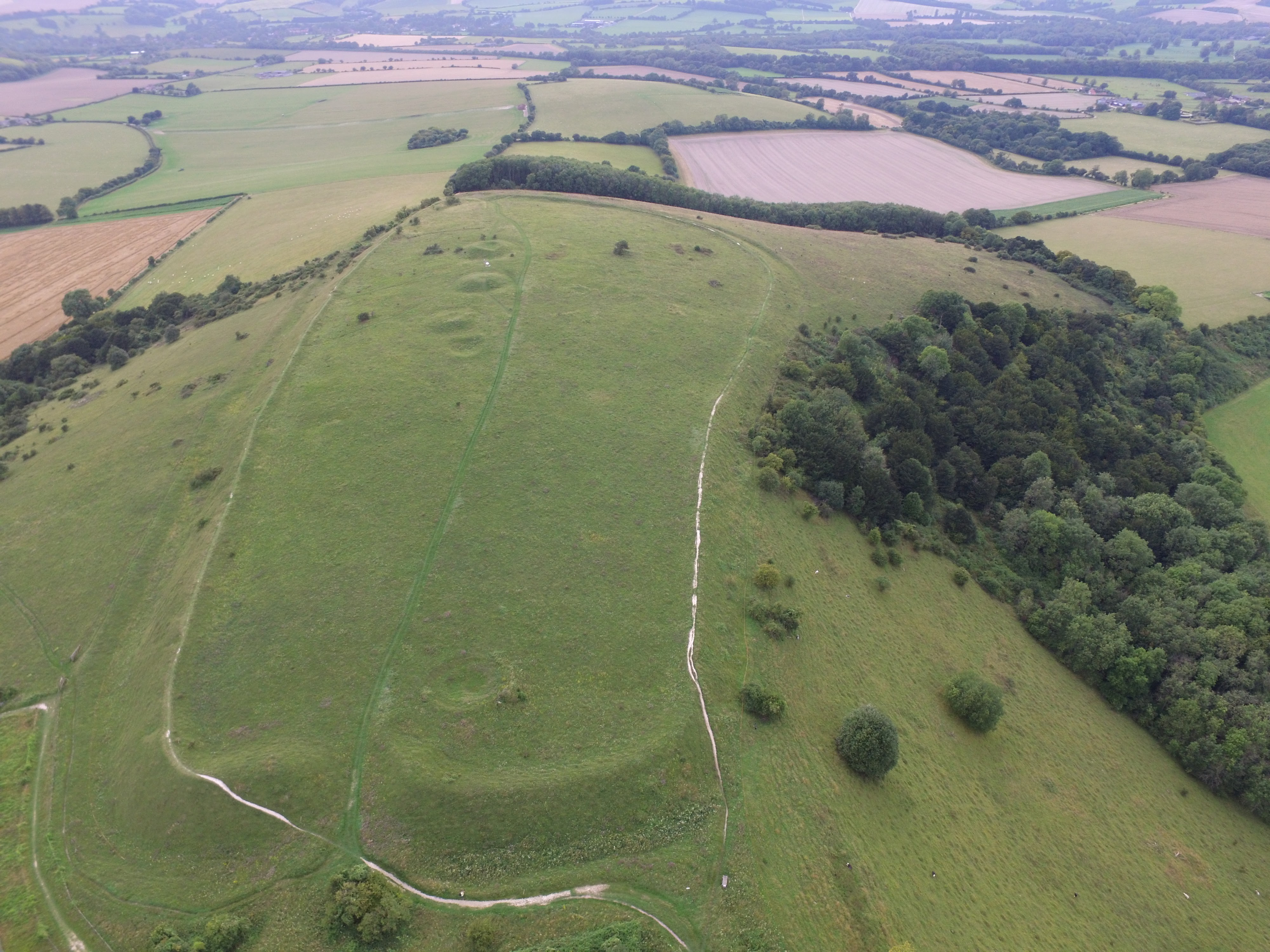 Iron Age hill fort